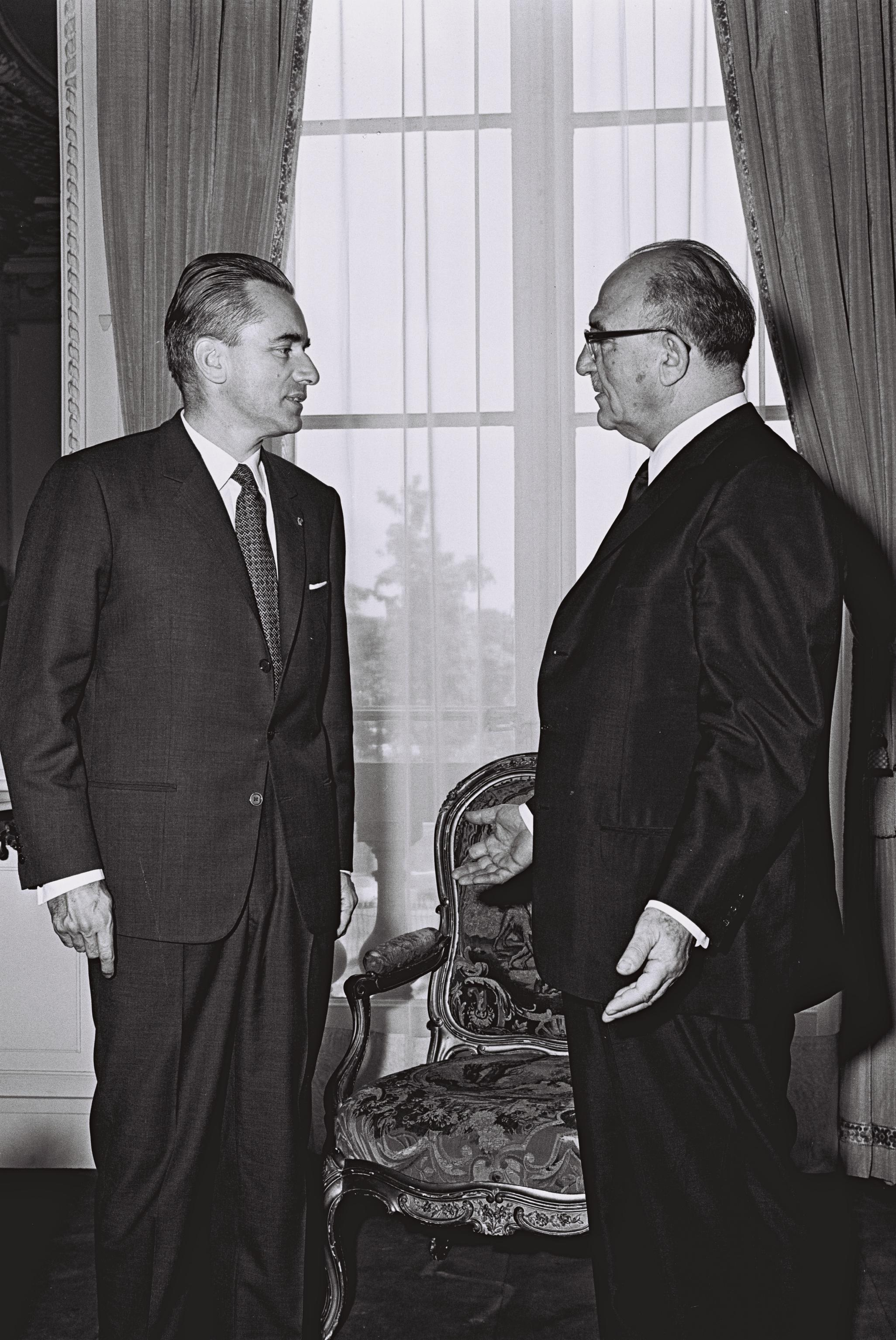 P.M. LEVY ESHKOL VISITING THE PRESIDENT OF THE FRENCH NATIONAL ASSEMBLY AND MAYOR OF BORDEAUX MR. SHABAN DELMAS AT HIS OFFICE IN PARIS, DURING VISIT IN FRANCE.